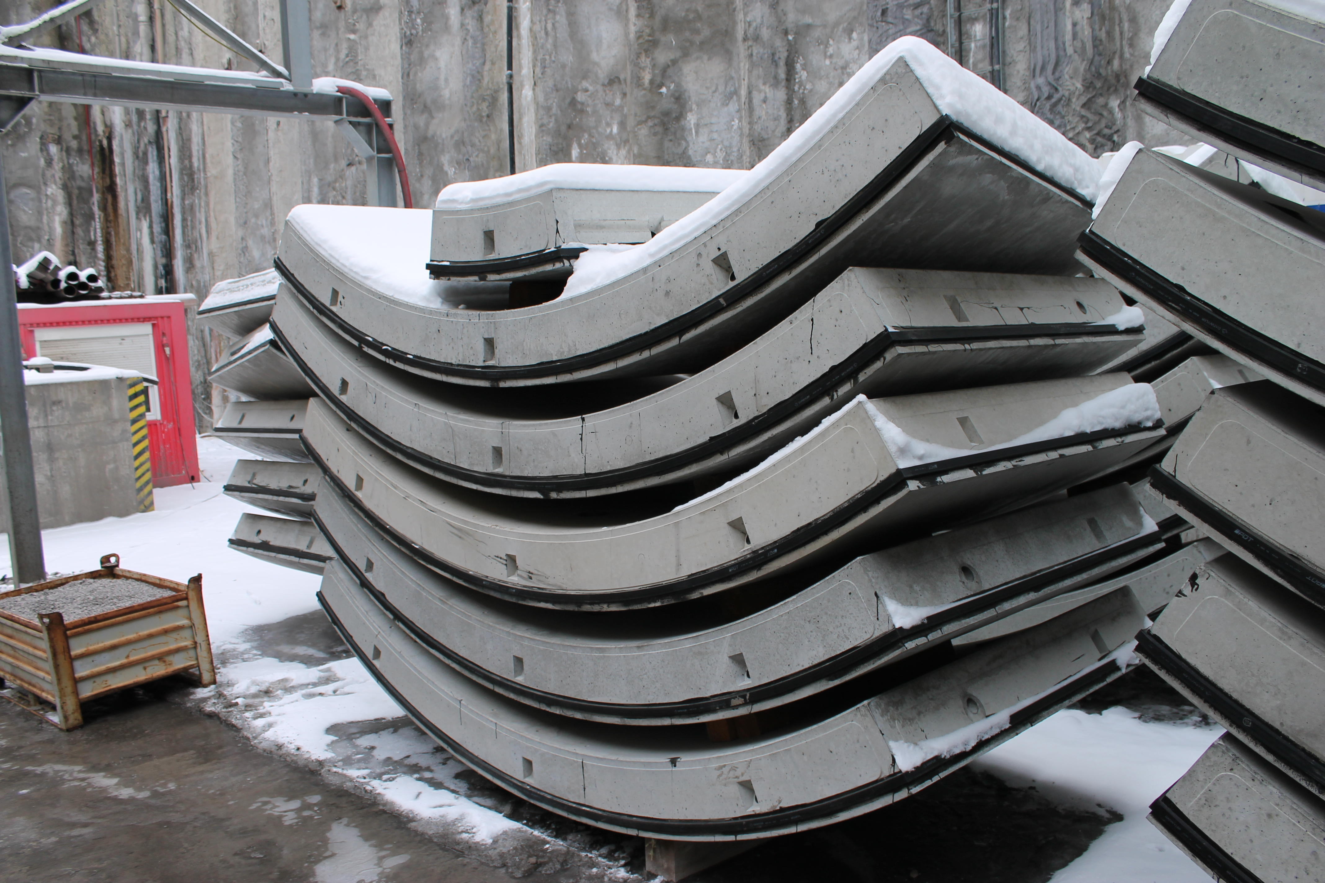 TBM segments in the metro station Veleslavín in Prague, section V.A, open day